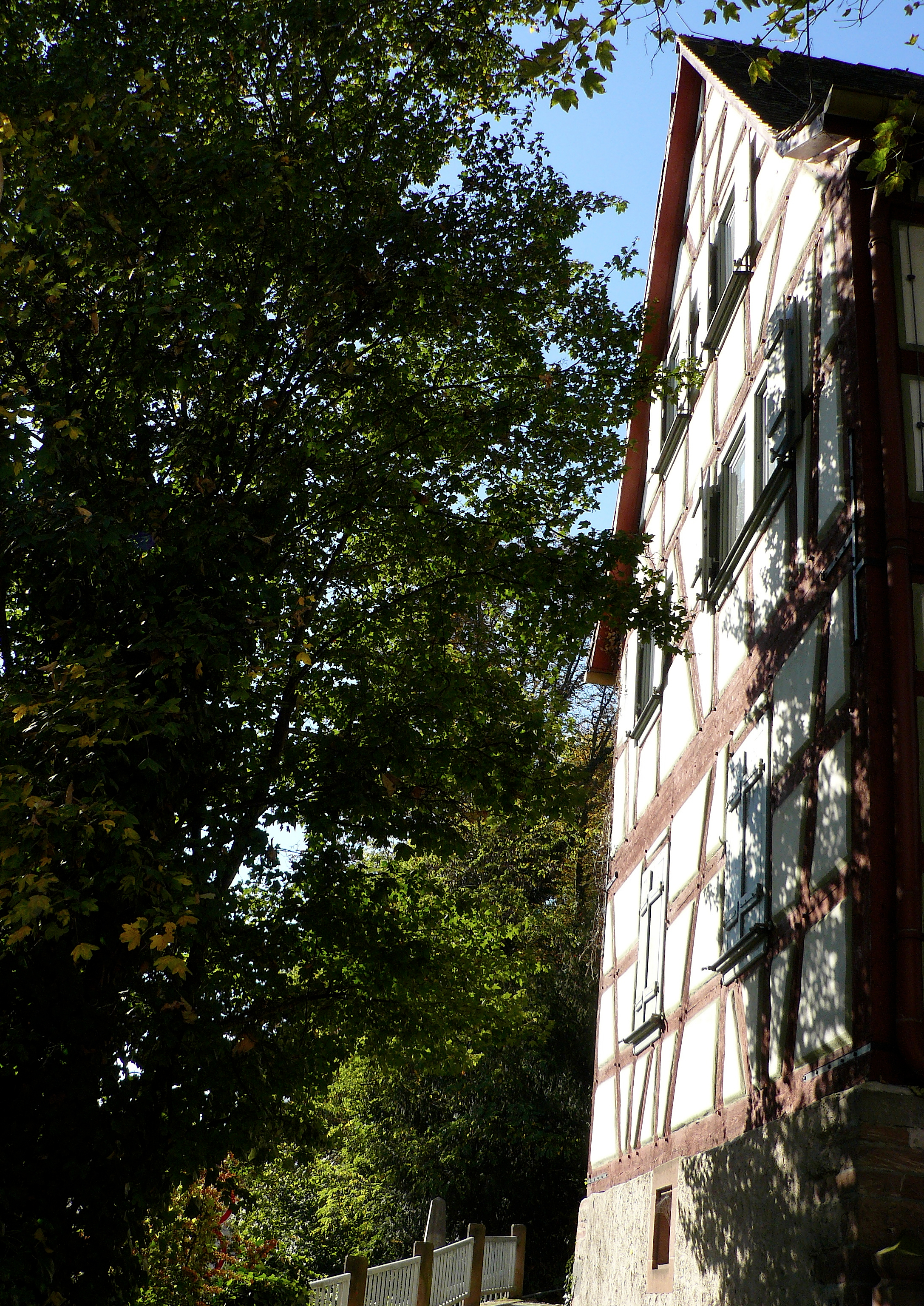 Old Lutheran School of Seckbach (1709), today a private home in the borrough Seckbach of Frankfurt, Hesse, Germany